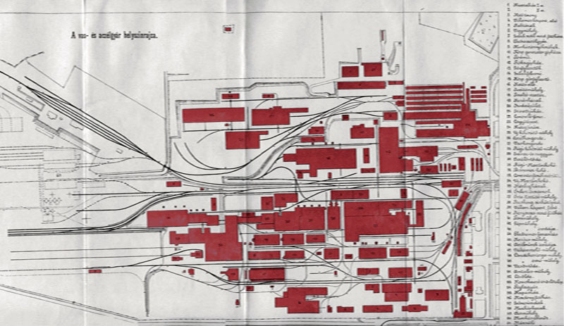 Map of the Diósgyőr Metallurgical Factory, before 1910